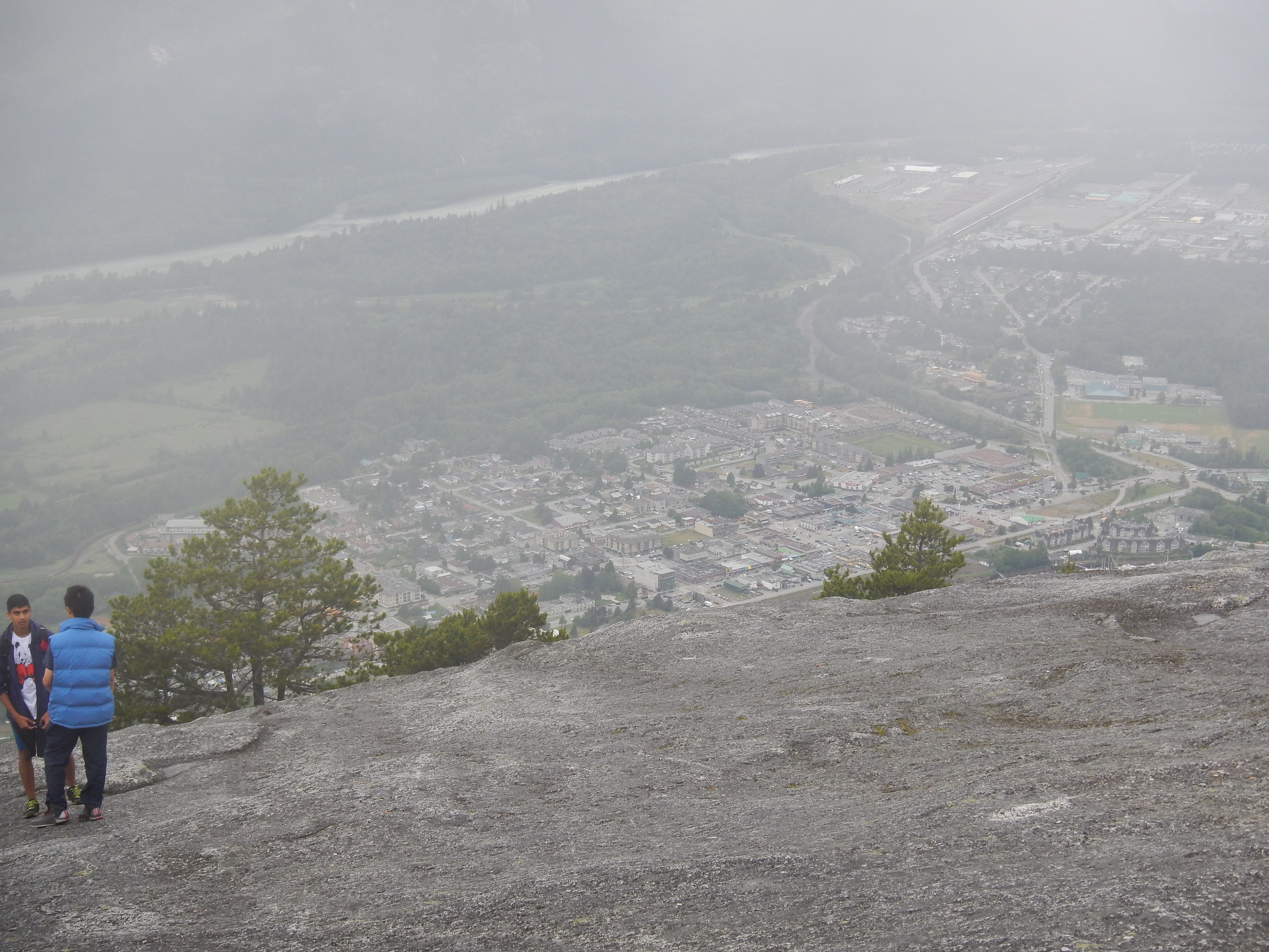 Squamish viewed from Stawamus Chief.